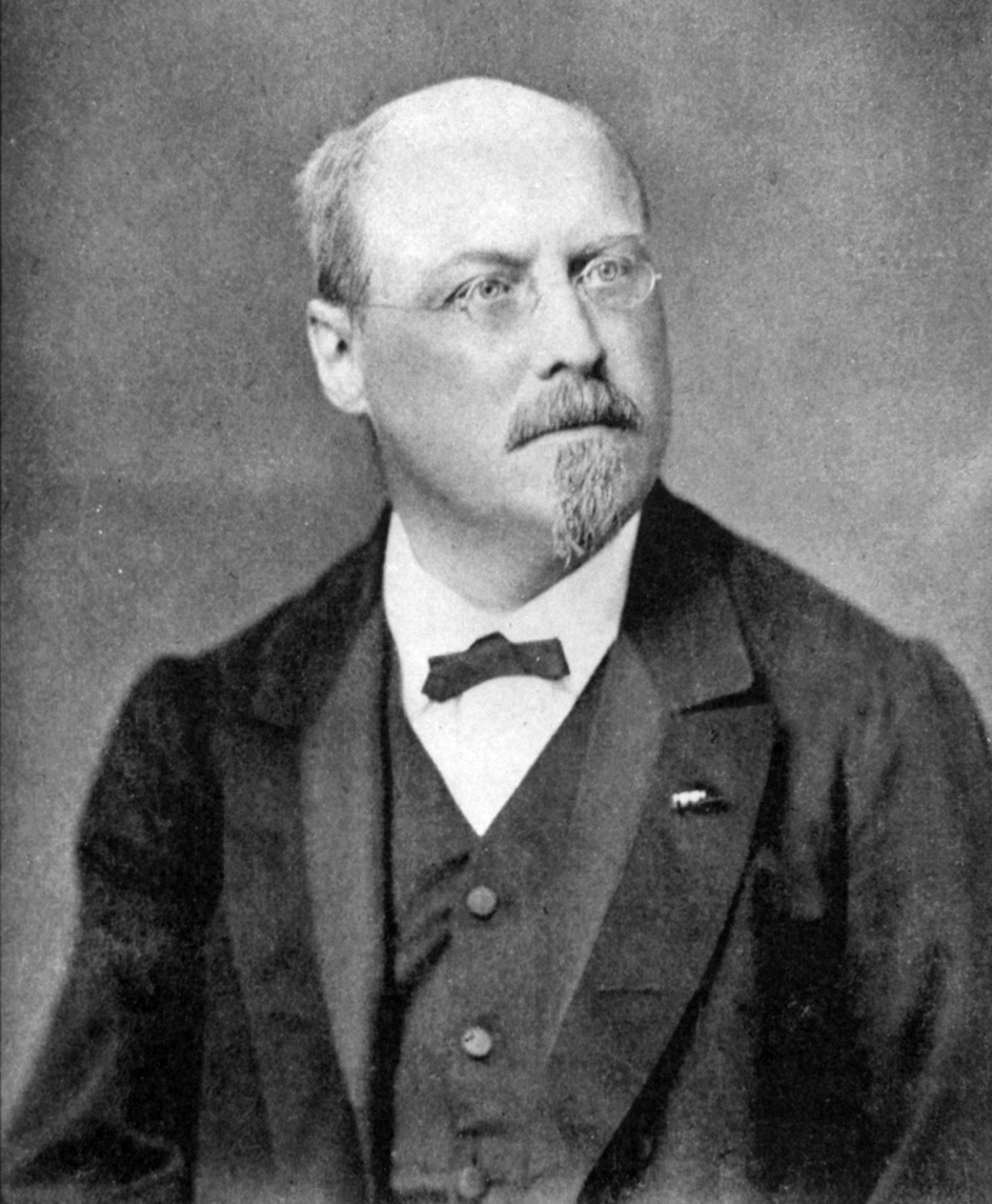 Joachim Raff, German-Swiss composer and pianist. Halftone reproduction of photo. Illus. in: John Knowles Paine, Famous composers, 1891, vol. 2.